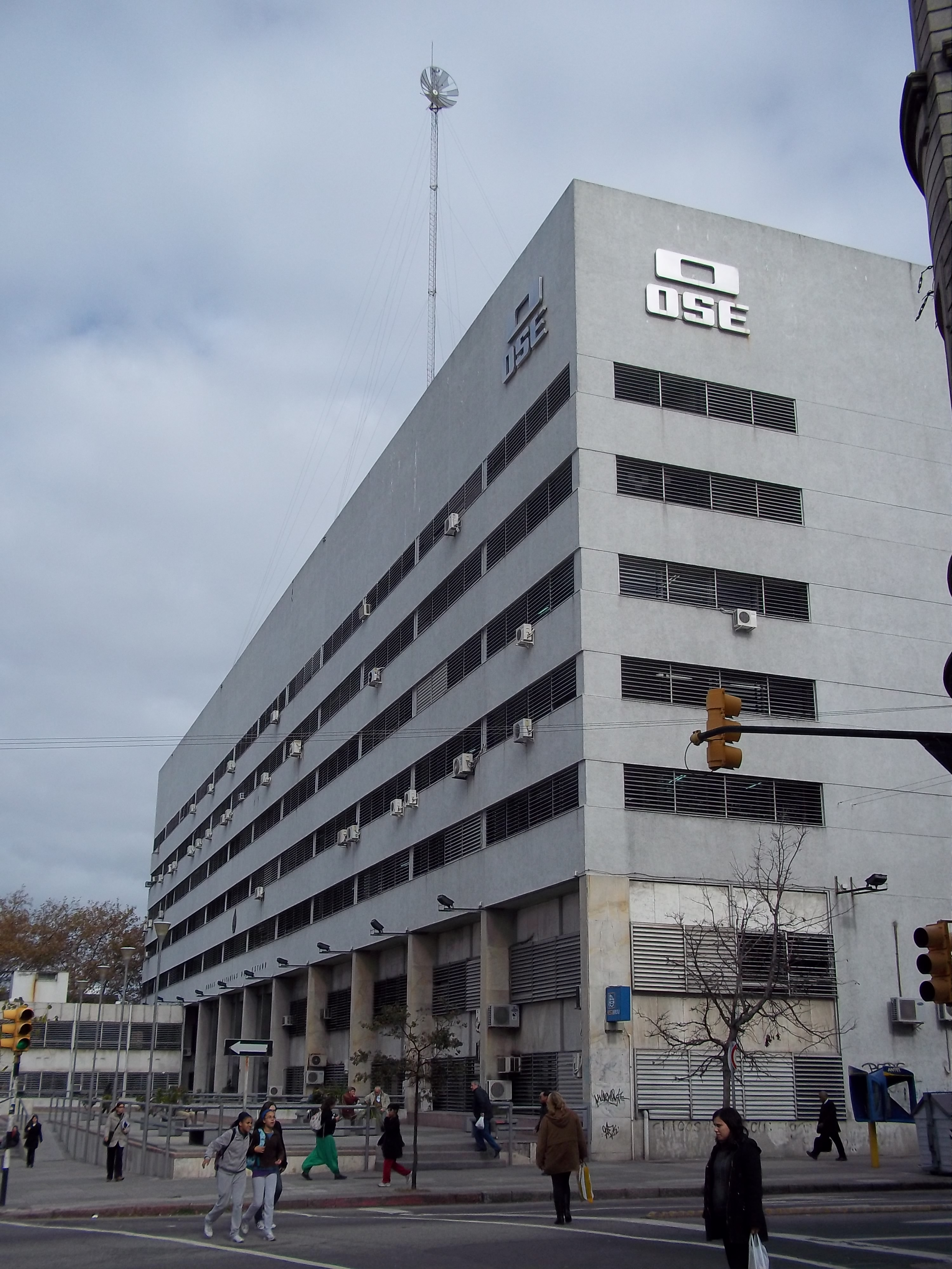 Building of OSE (Obras Sanitarias del Estado), side view. In Montevideo, Uruguay.